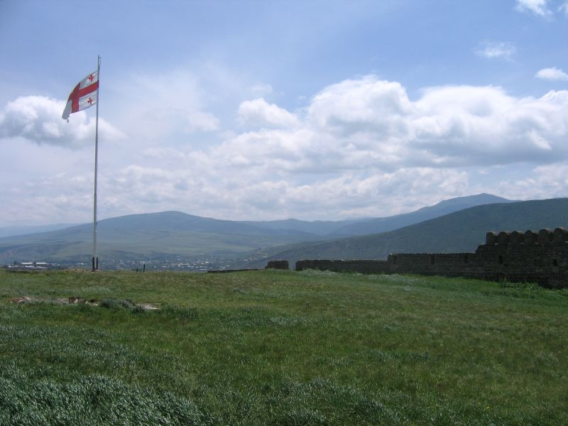 Gori, Georgia.